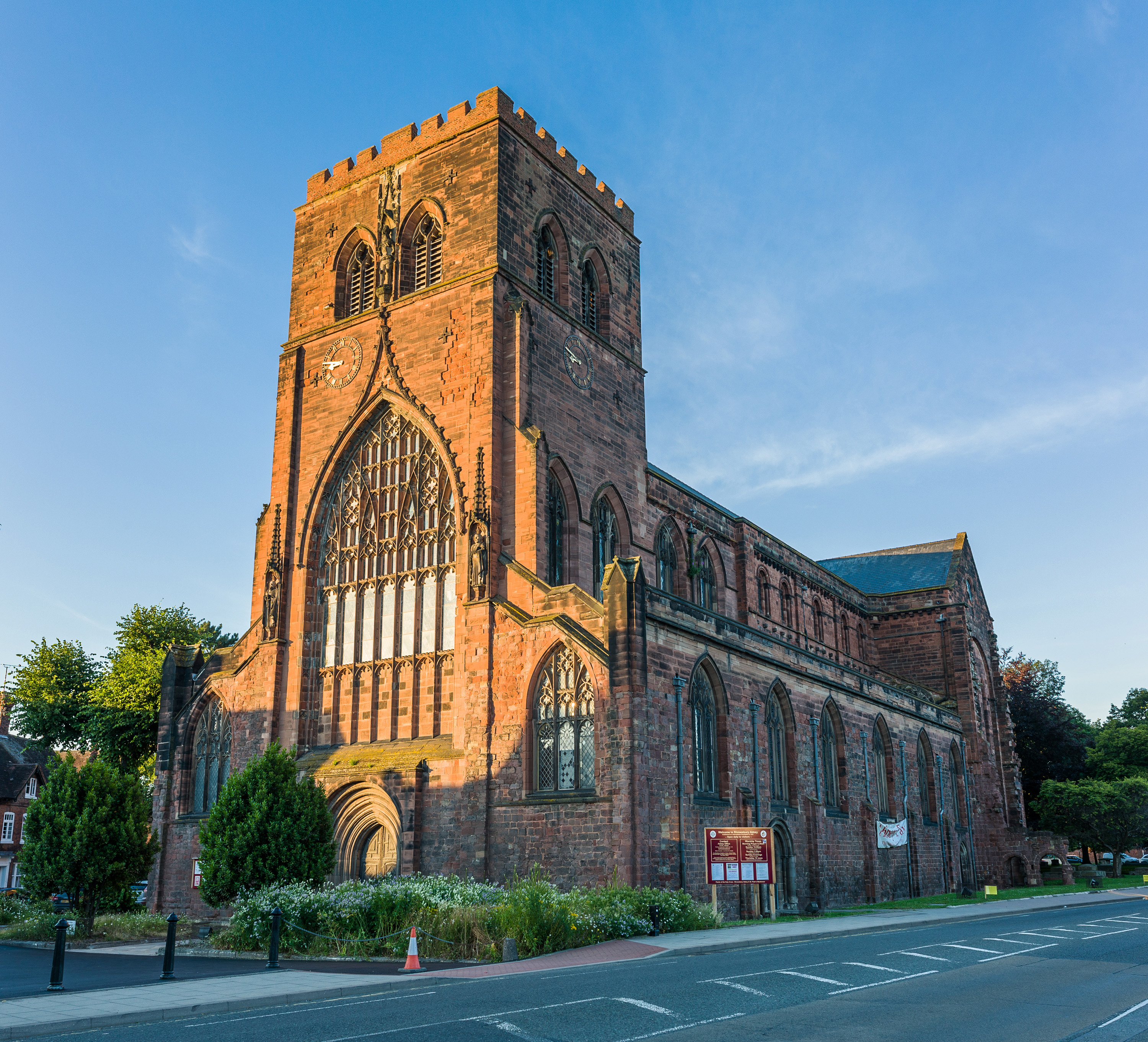 Shrewsbury Abbey viewed from Abbey Foregate in Shrewsbury, Shropshire, England.